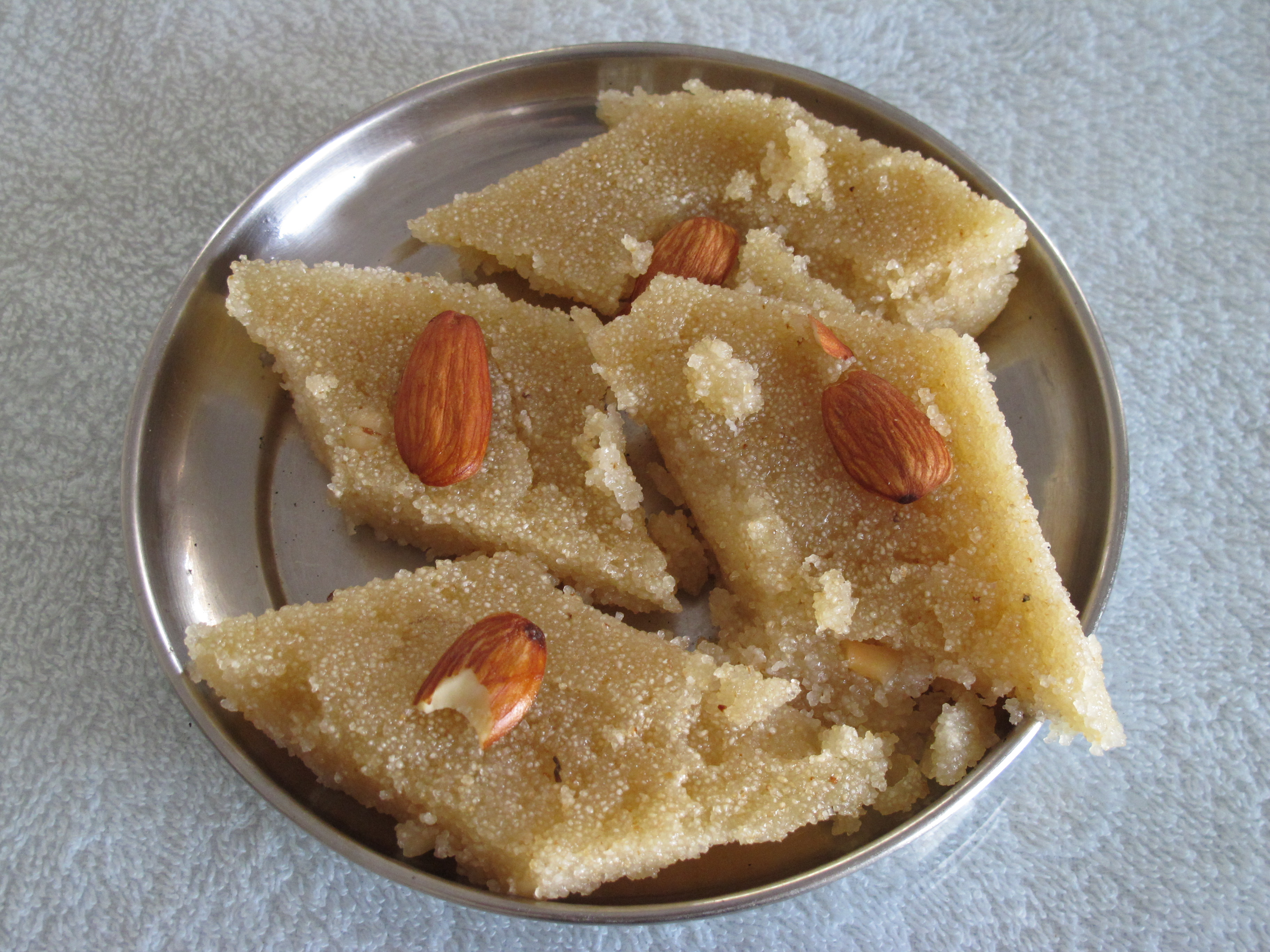 Sooji Ki Berfi